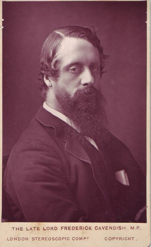 The british lord Frederick Cavendish (1836-1882)